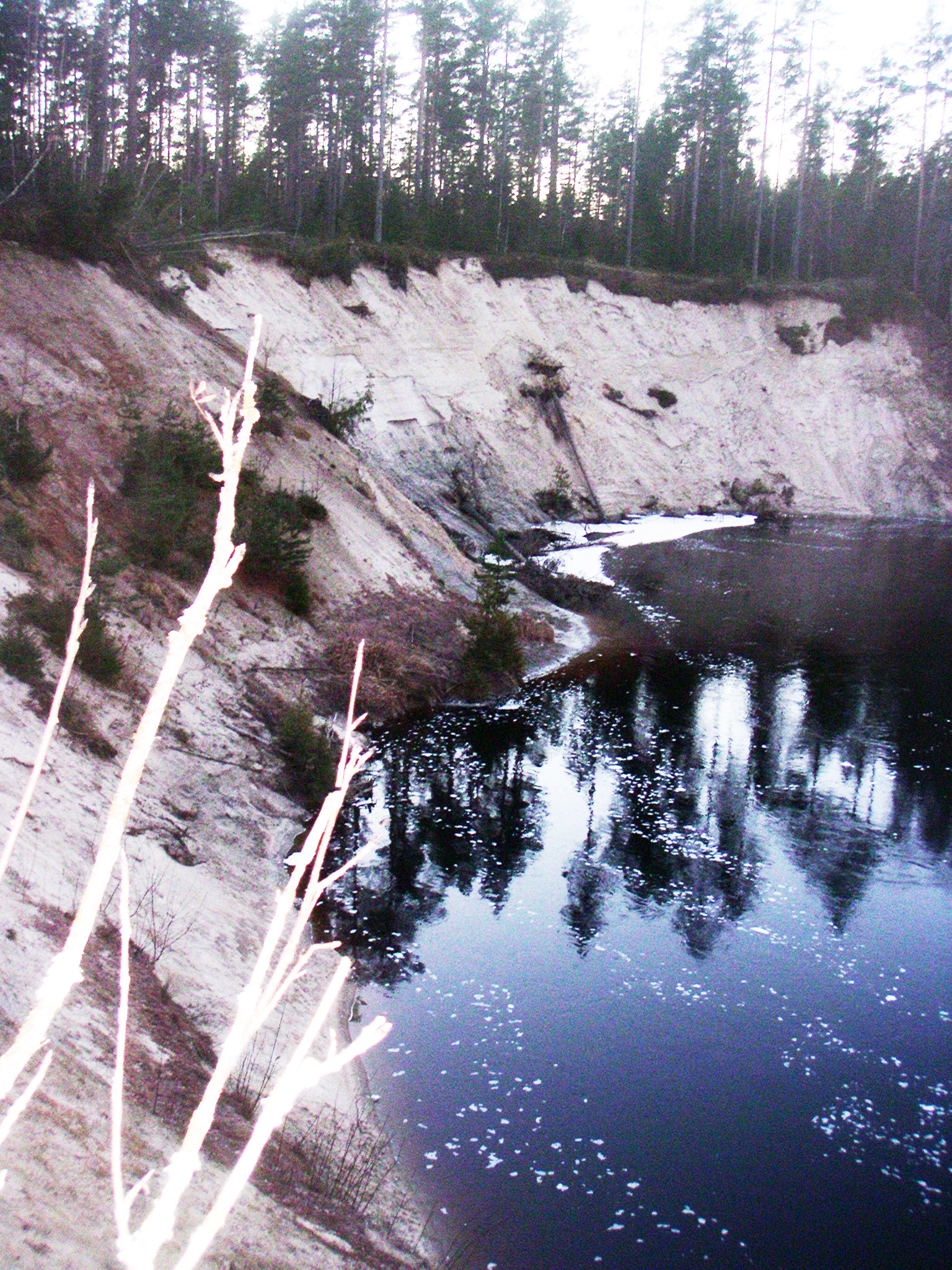 nipor